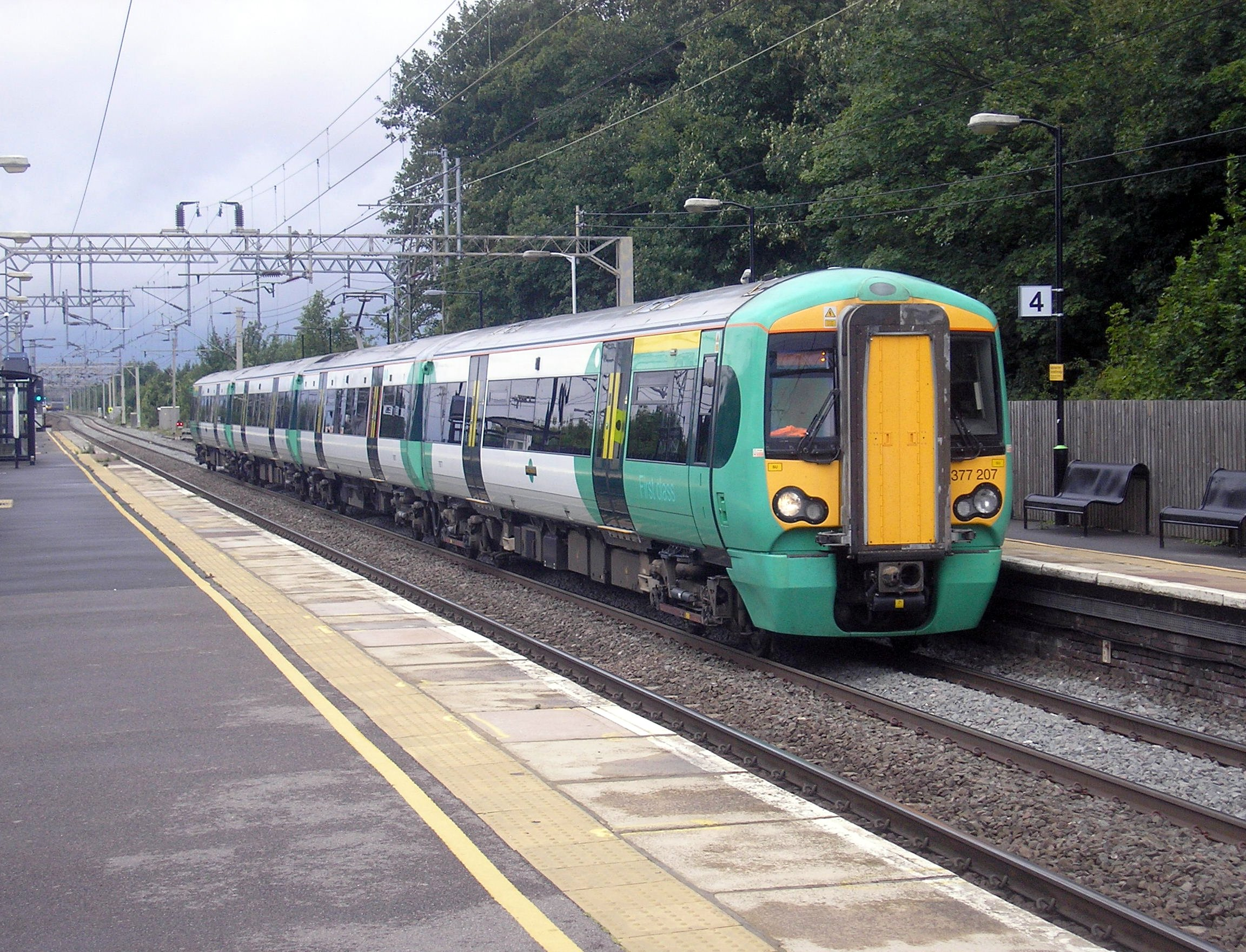 A Southern class 377 EMU approaches Hemel Hempstead with a Milton Keynes Central to East Croydon service.